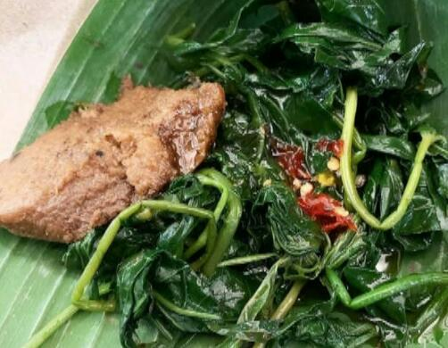 Jawa: Brambang asem is traditional food made from vegetable and spicy - sour sauce